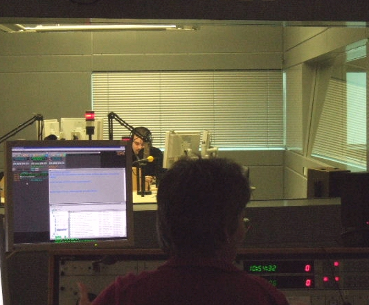 Studios of the Deutsche Welle (located in the Schürmann-Bau in Bonn.